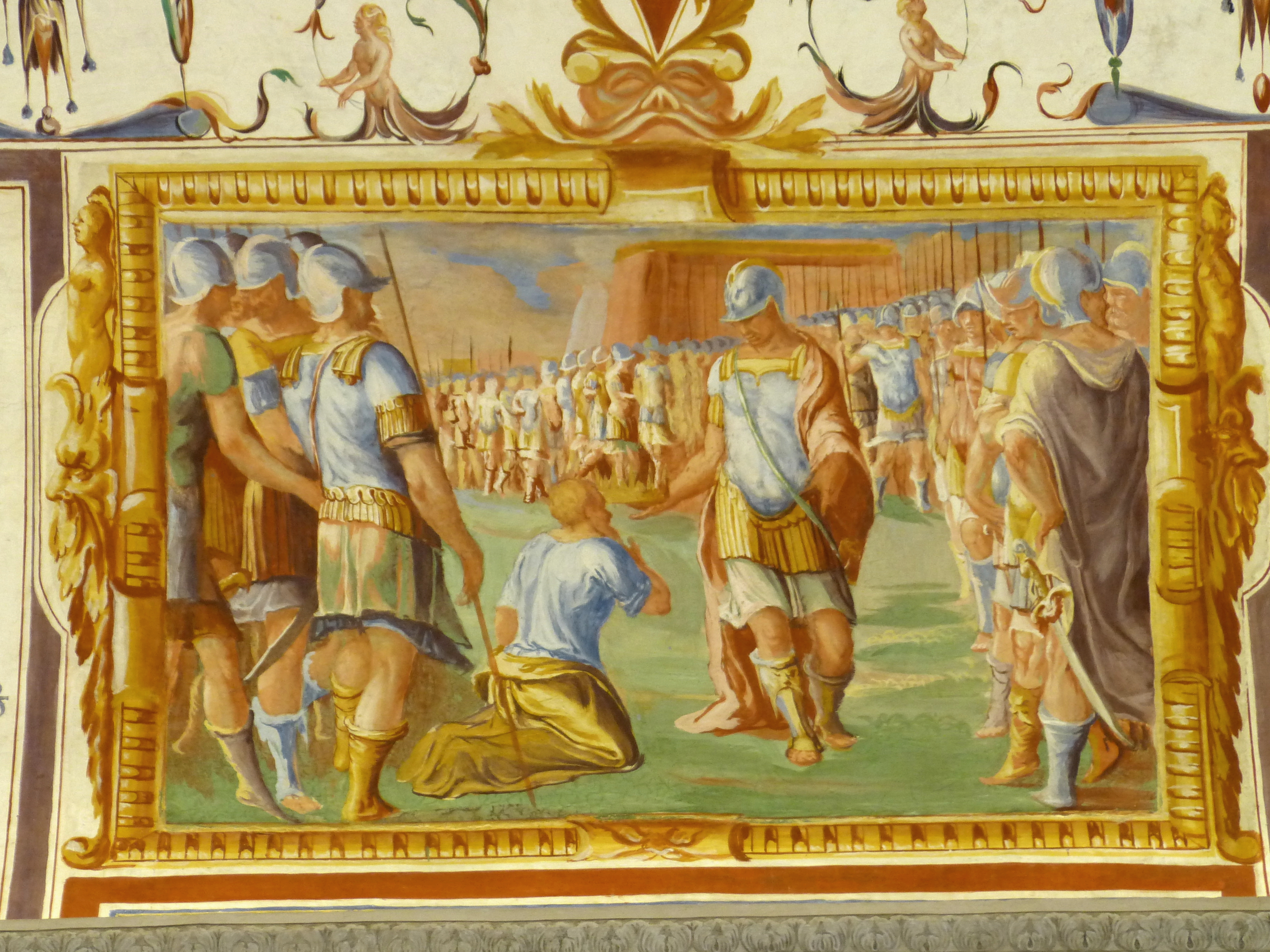 Castiglione del Lago ( Umbria ). Corgna palace (1563 ) - Aparment of Ascanio II: Fresco ( 1575 ) showing the Battle of Lake Trasimene by an unknown artist - detail: Clemency of Hannibal.